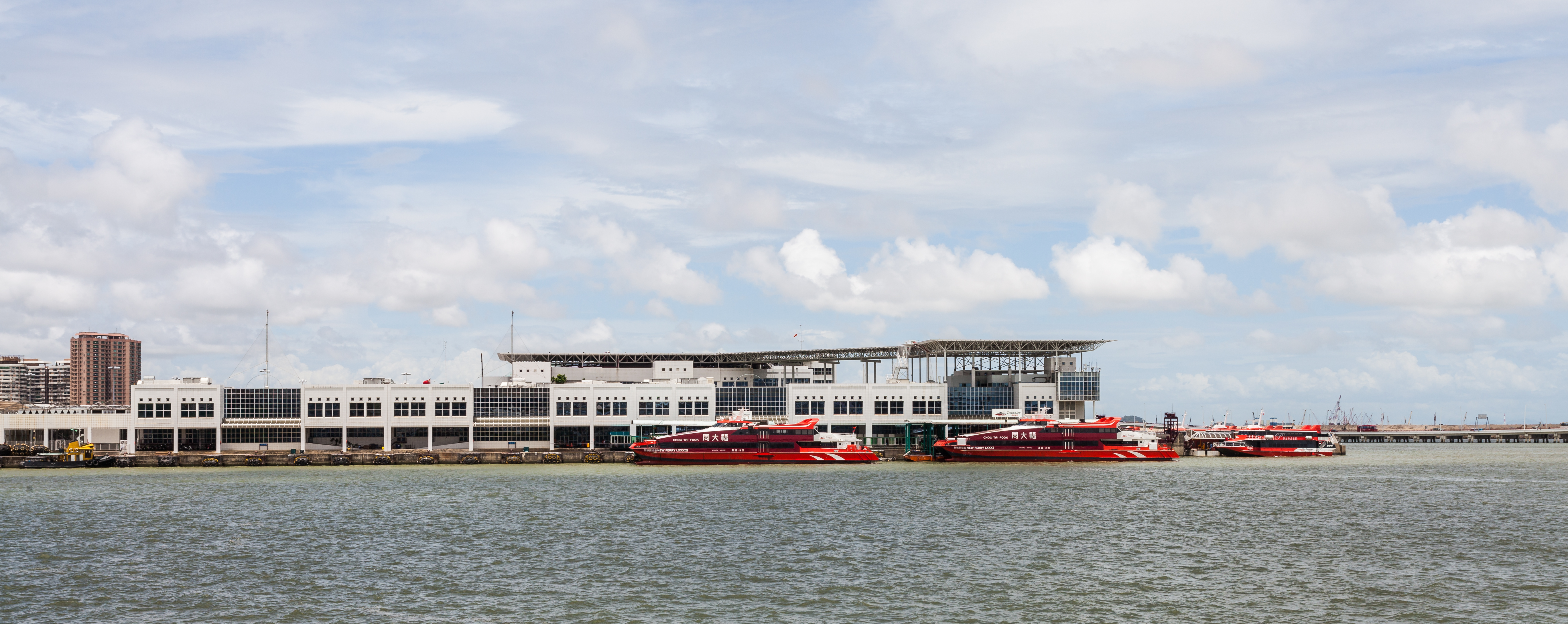 Outer Harbour Ferry Terminal, Macau